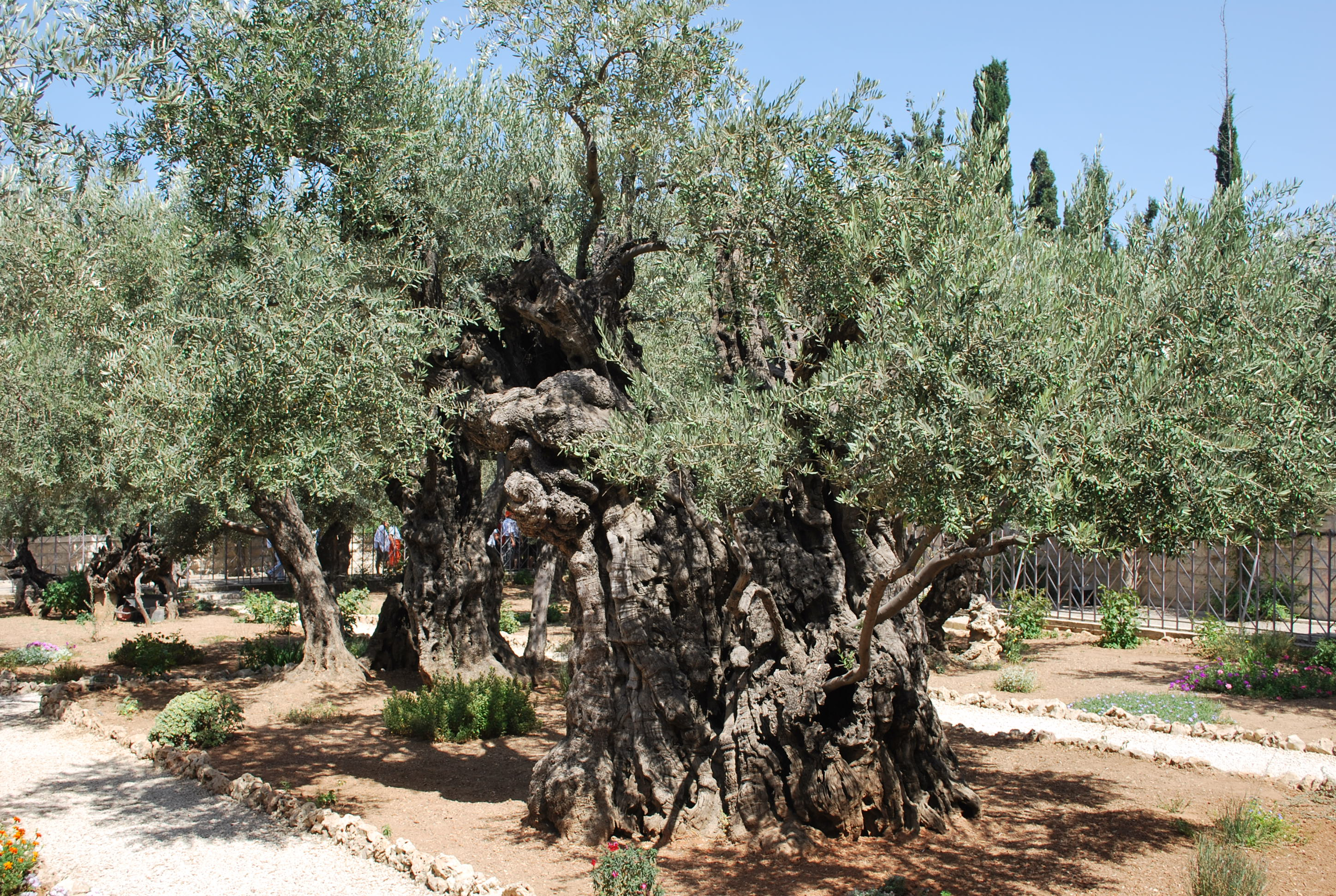 Some of these trees are dated to be over 2000 years old.